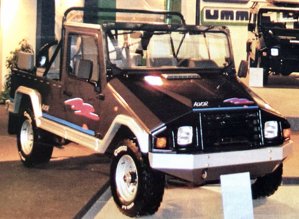 UMM Alter Alvor